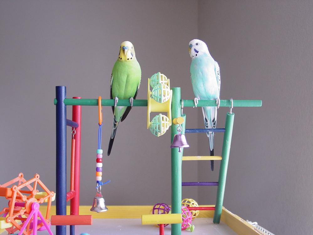 Budgerigar (Melopsittacus undulatus) on a play perch with toys.